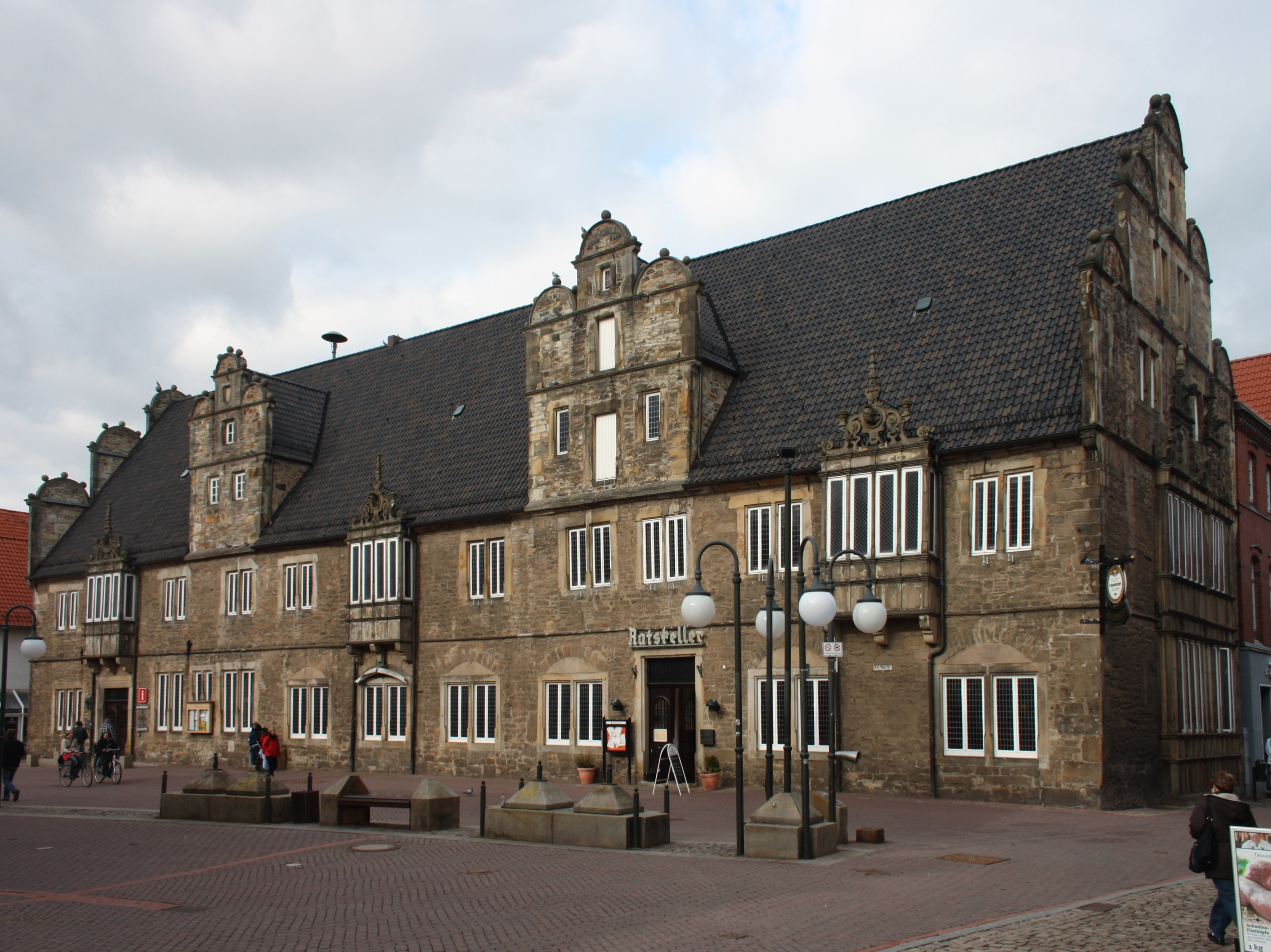 Stadthagen, Germany. Town hall.